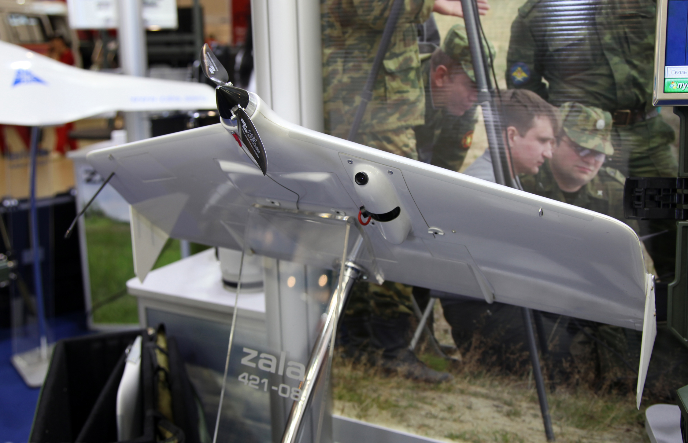 ZALA 421-08 at Integrated Safety and Security Exhibition 2012